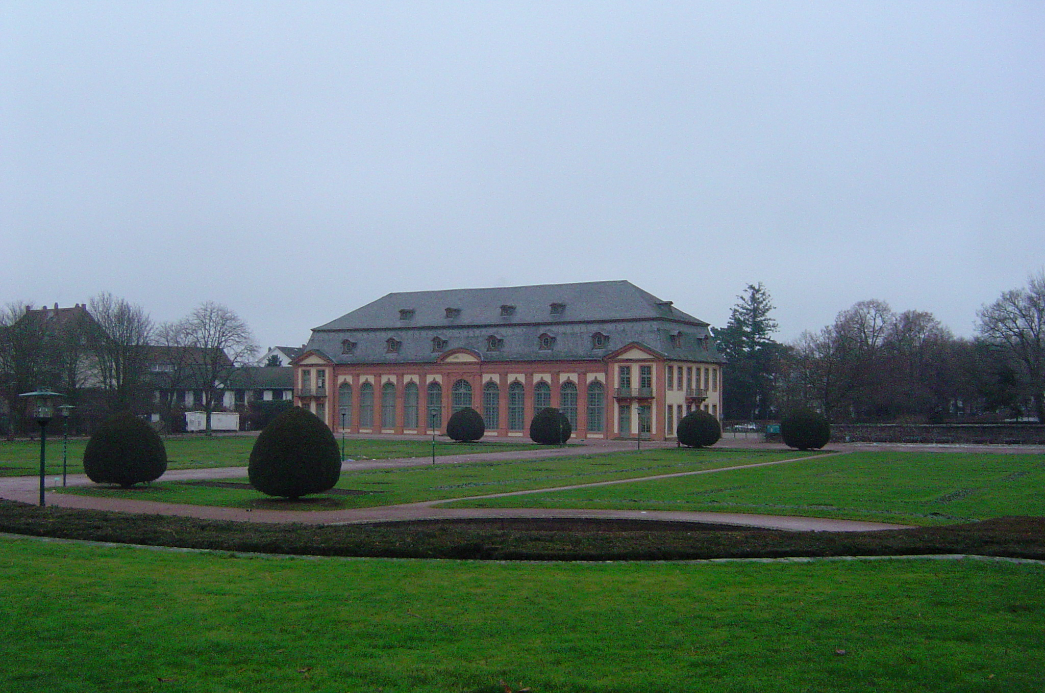 Orangerie in Darmstad - southern facada